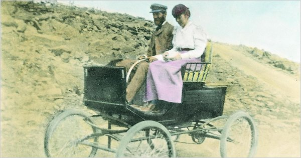 F.O. Stanley and his wife, Flora, drove an automobile to the top of Mount Washington to become the first humans to make this journey by car. Mount Washington is located in New Hampshire in the United States and is the highest mountain on the eastern seaboard of North America. The car was named the "Stanley Automobile". It traveled approximately 7.6 miles. Descending, the engine was put in low gear, and brakes were used extensively.